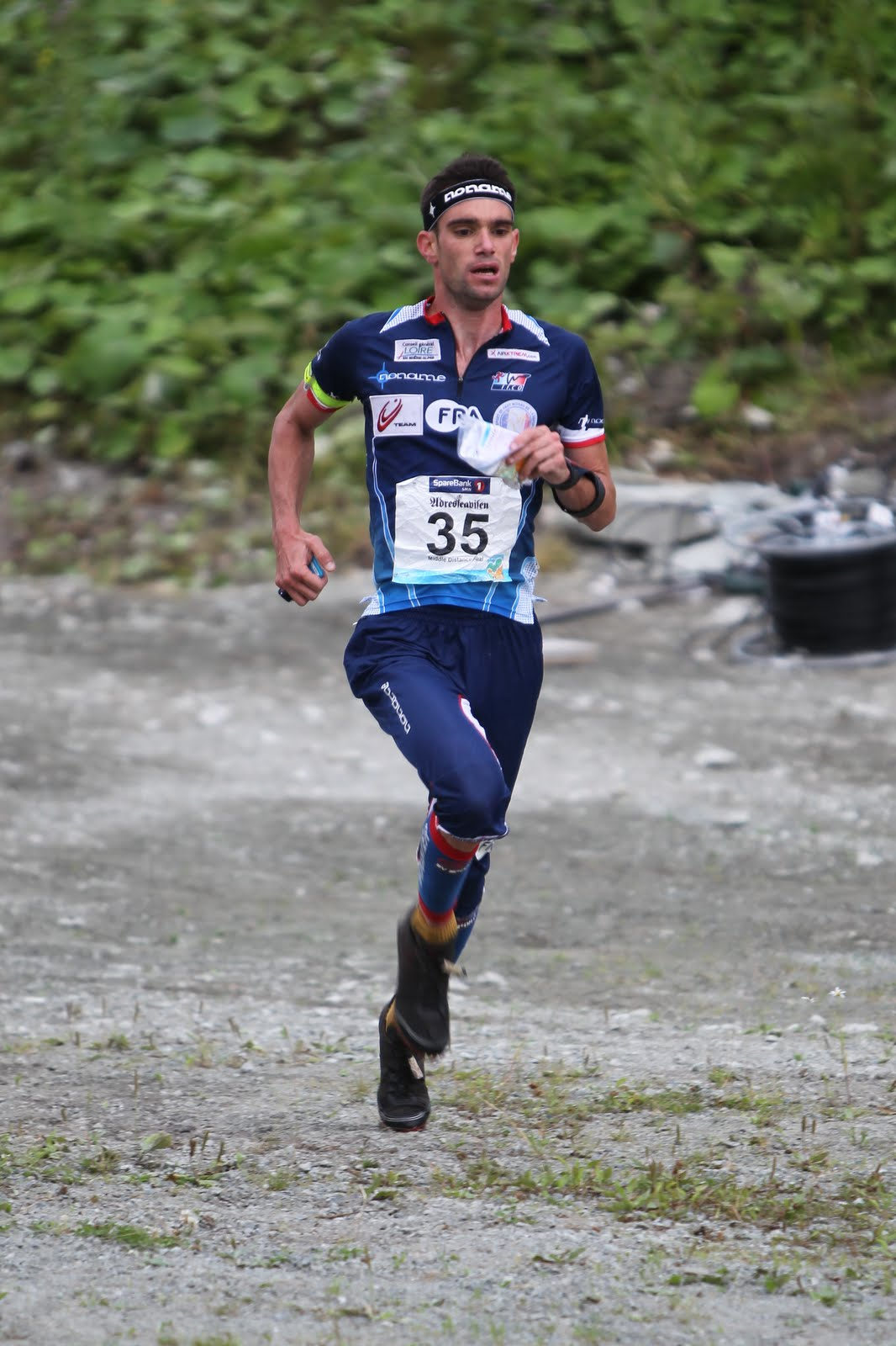 François Gonon at World Orienteering Championships 2010 in Trondheim, Norway